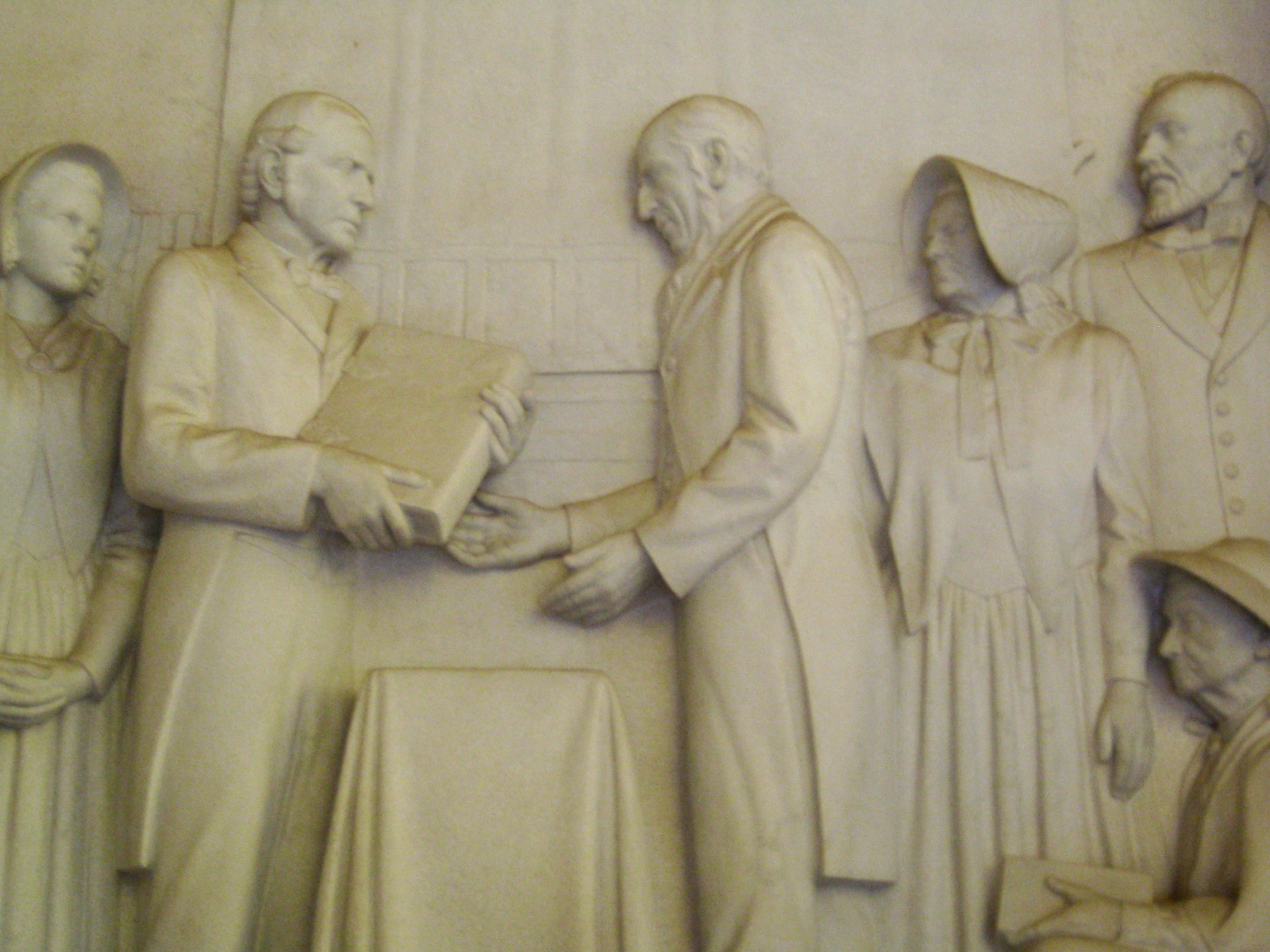 A panel of the historical frieze in the Hall of Heroes of the Voortrekker Monument, Pretoria. In this panel, one of 27, a bible which is currently in the Cenotaph Hall exhibit, is presented by Thomas Phillips (left), on behalf of the British settlers of Grahamstown to voortrekker J.J. Uys (right).[1] The panels in Quercetta marble[2] portray scenes from the Trekker departure from the Colony's frontier in 1835, to the signing of the Sand River Convention in 1852. ↑ a b Uys, Ian S. (1976-12). "A Boer family". Military History Journal 3 (6). ↑ a b Rademeyer, Alet (2012-10-25 22:48). "‘Klipouma’ kon jas, skoene koop". Beeld. Retrieved on 26 Oktober 2012.